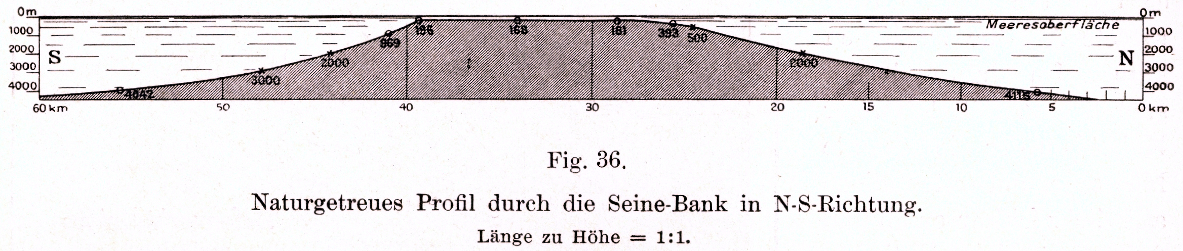 A profile view of Seine Seamount near the Portuguese island of Madeira, showing a flat-topped seamount (today called "guyot"). In fact, many of the seamounts discovered prior to the invention of the echo sounder were flat-topped seamounts having a wide surface area on the top increasing the probability of discovery by widely spaced piano-wire soundings.